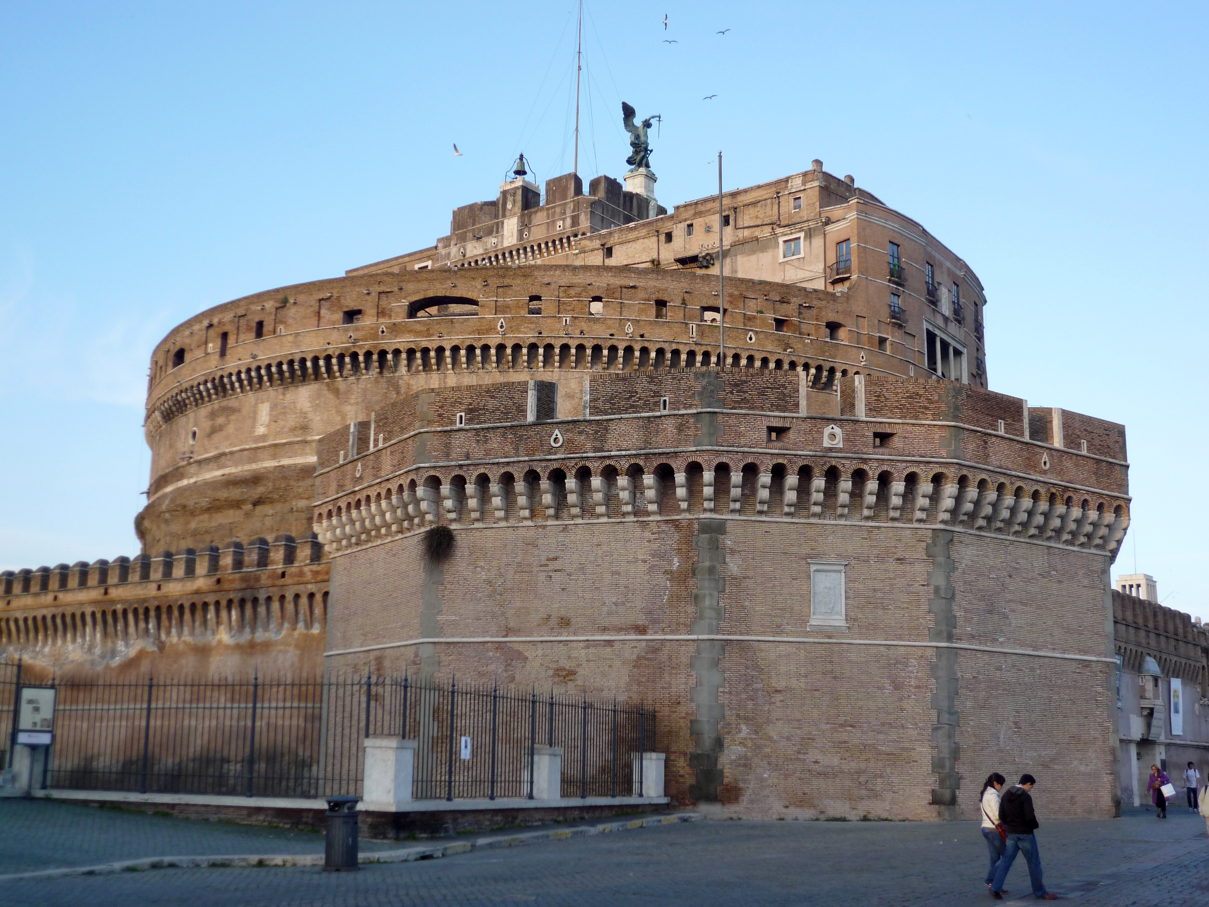 Mausoleum of Hadrian (castel Sant'Angelo) - Rome